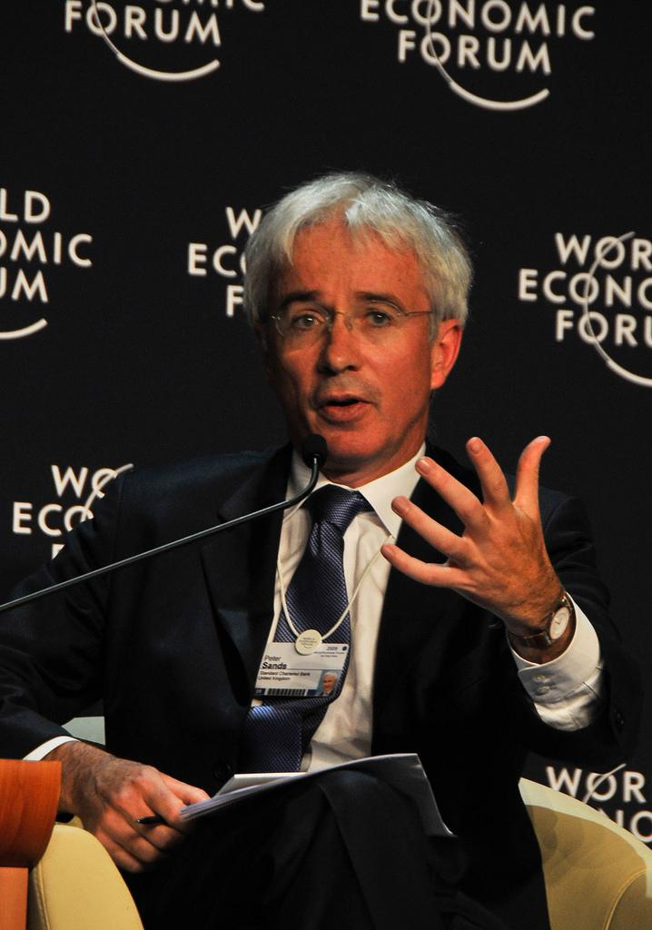 SEOUL/SOUTH KOREA, 19JUN09 - Peter Sands, Group Chief Executive Officer, Standard Chartered Bank, United Kingdom - captured during the World Economic Forum on East Asia in Seoul, South Korea, June 19, 2009. Copyright World Economic Forum ( by Oh Jaehyuk